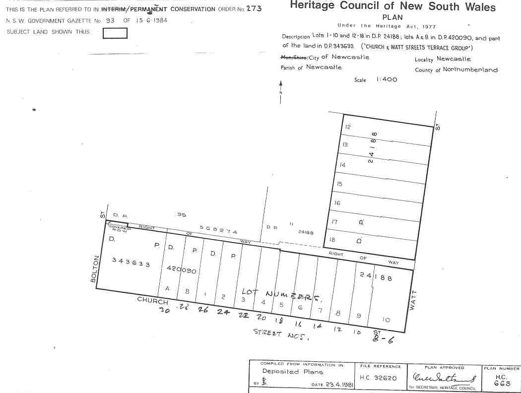 Church and Watt Street Terrace Group: PCO Plan Number 273